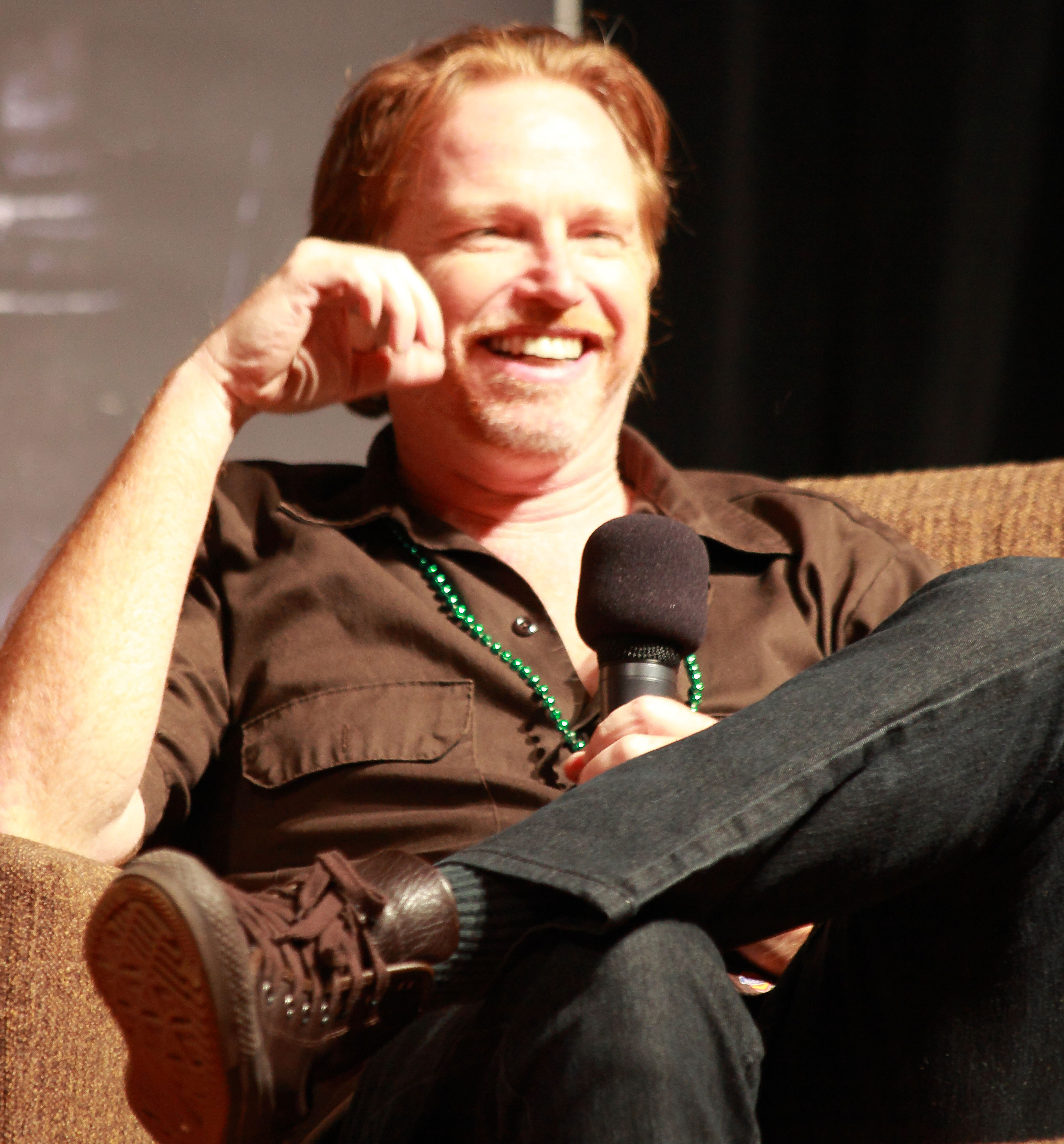 Courtney Gains from "Children of the Corn" at Spooky Empire's Ultimate Horror Weekend 2014 held in Orlando, Florida.